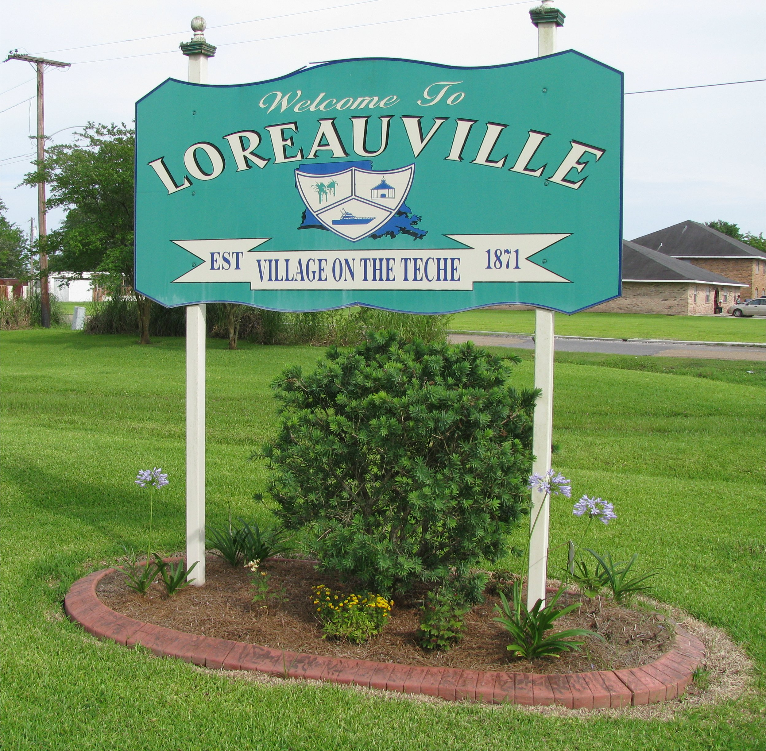 Photograph of the Loreauville sign at the North entrace to the Village of Loreauville, Louisiana, USA